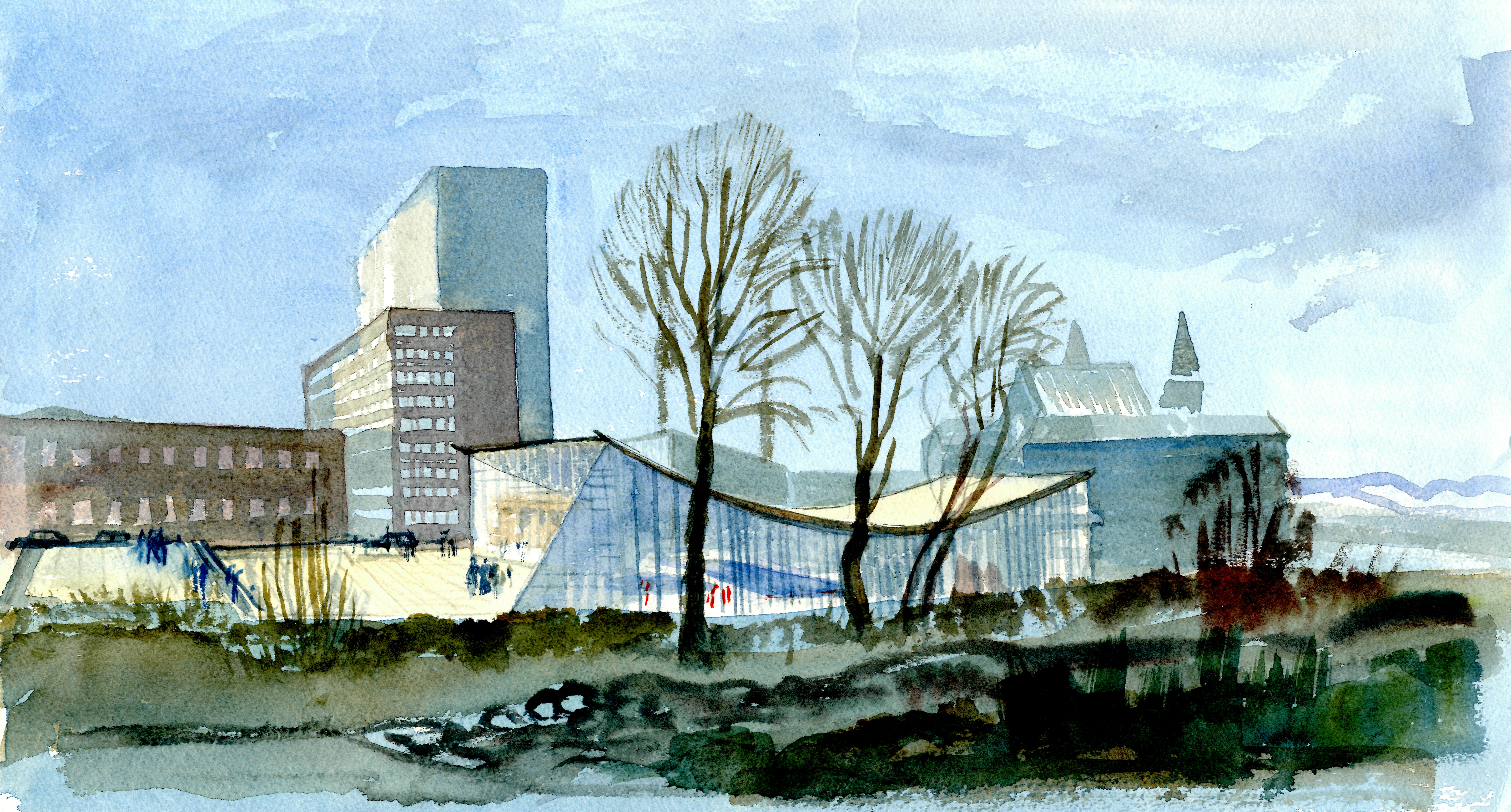 Water colour sketch showing professor(artist/architect)Robert Esdaile's project for a new university library and indoor swimming pool in "Dødens dal" (Valley of death) close to what is now known as Campus NTNU Gløshaugen, Trondheim. The building was never erected.